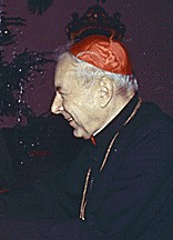 Polish Cardinal Stefan Wyszyński during a meeting with Rosalynn Carter and Zbigniew Brzezinski, January 11, 1978.